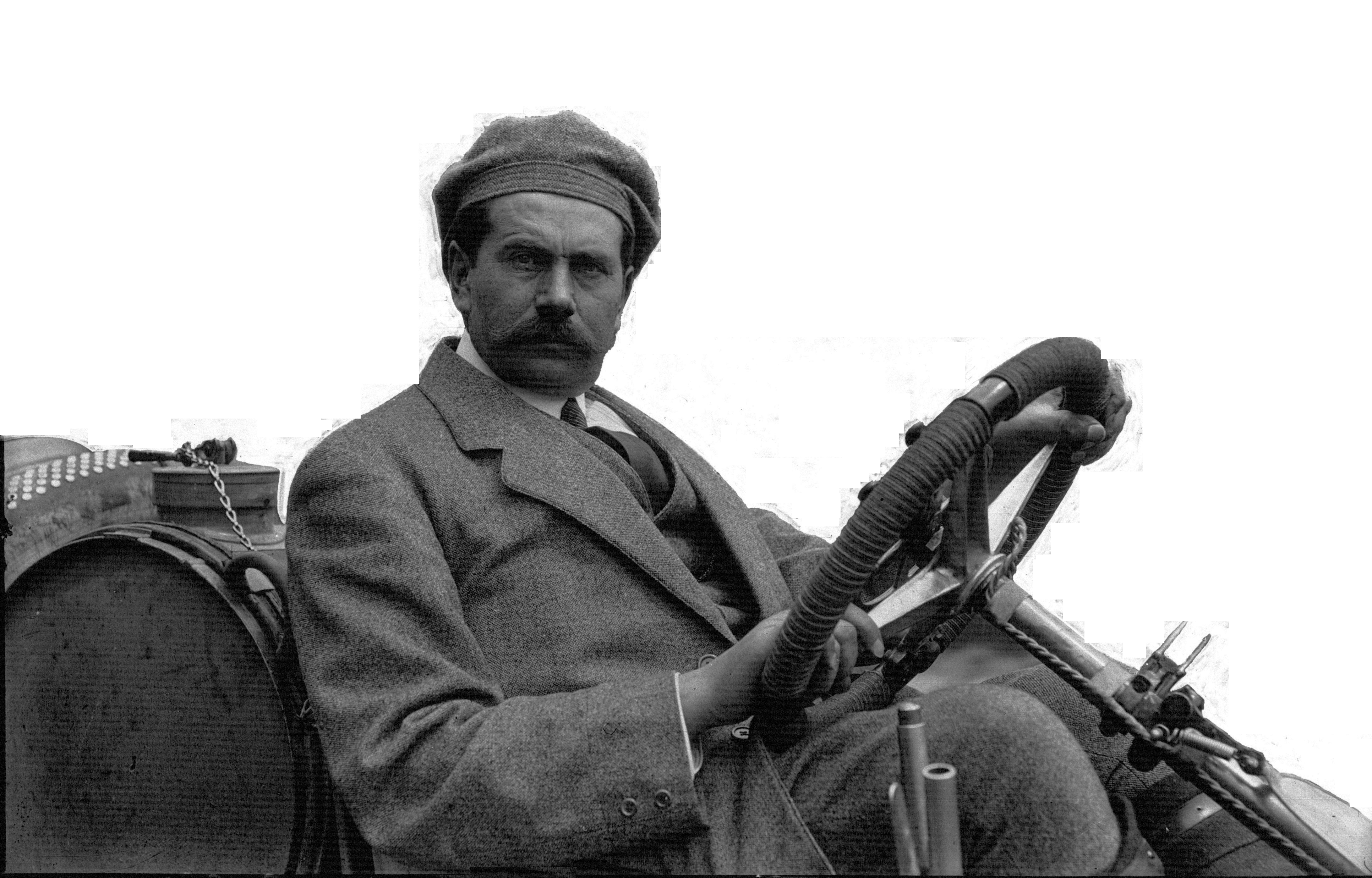 René Hanriot in his Lorraine-Dietrich at the 1912 French Grand Prix at Dieppe.